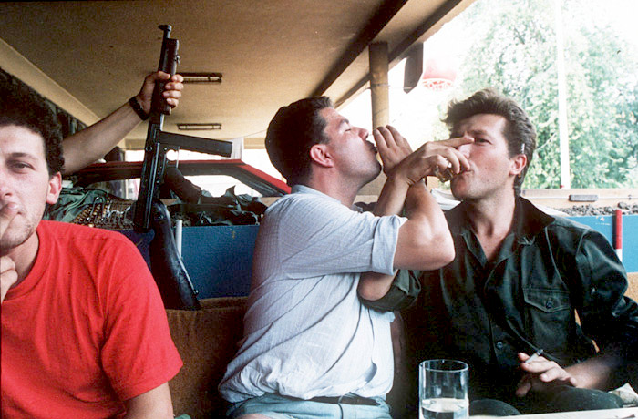 Serb soldiers toast in their stronghold in Grbavica, a distirct of Sarajevo, 1992.